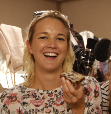 Swedish radio host and comedian Elin Almén in the studio.